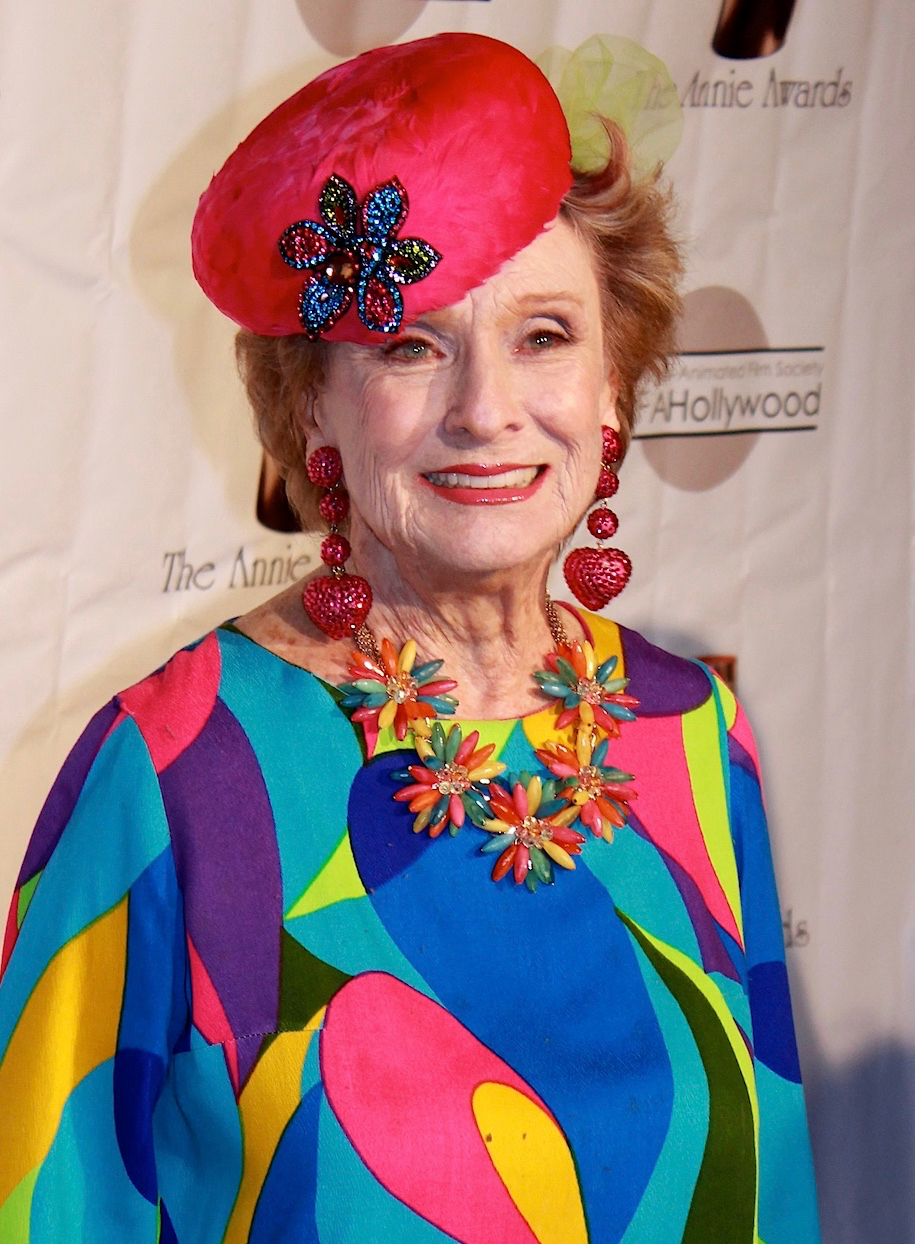 Cloris Leachman, 2014